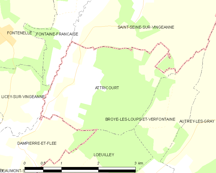 Map of French municipality